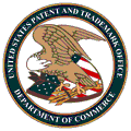 United States Patent and Trademark Office seal